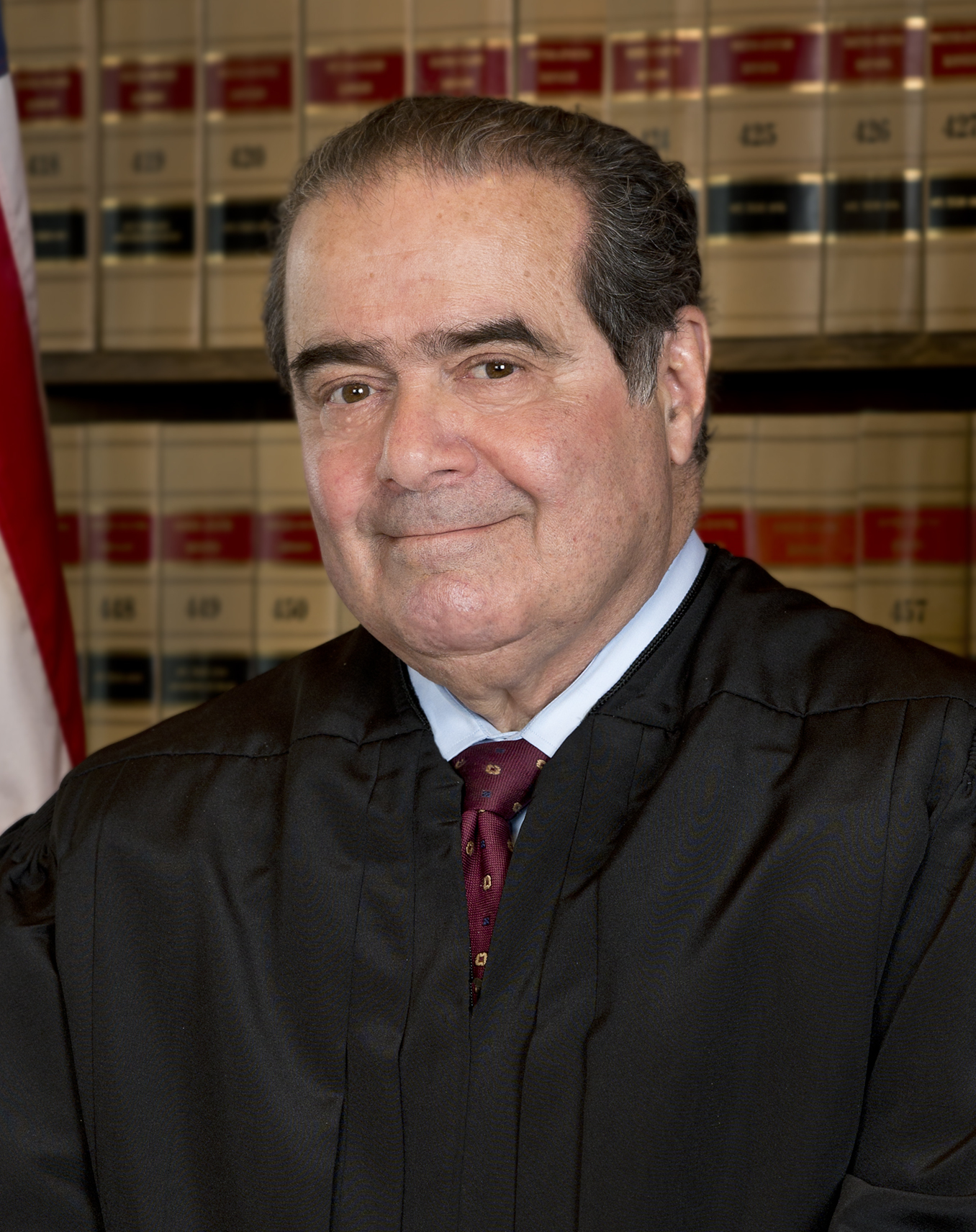 Antonin Scalia, Associate Justice of the Supreme Court of the United States. (Cropped)